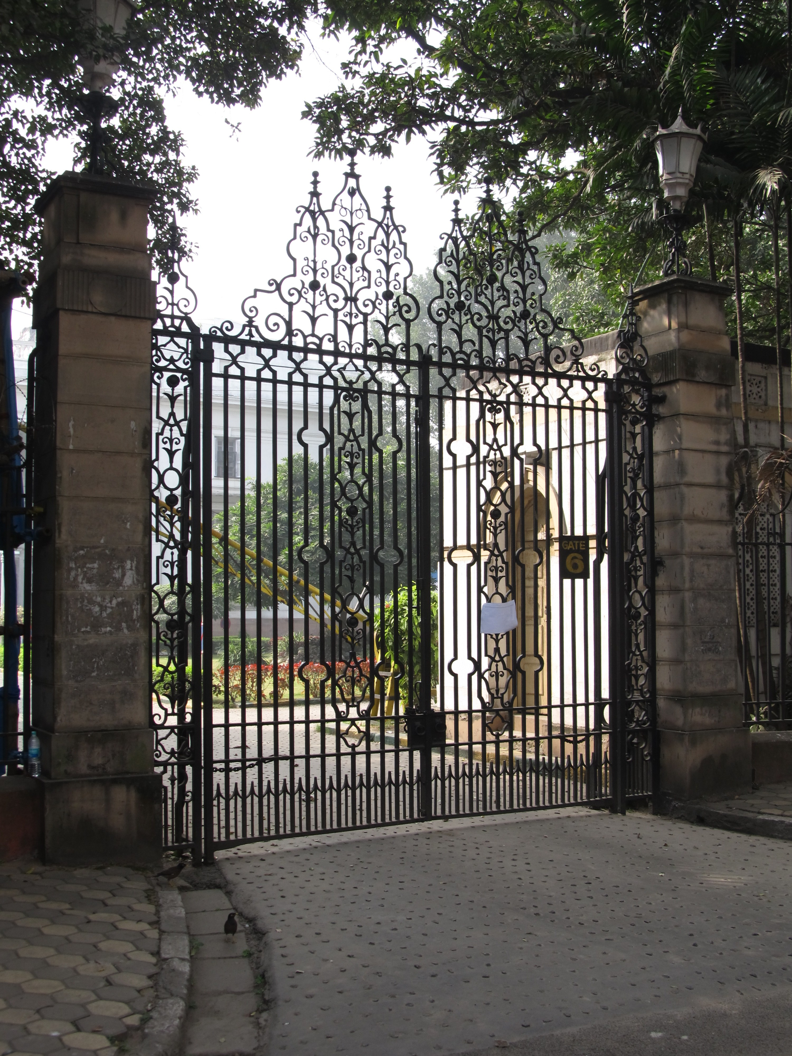 Kolkata.